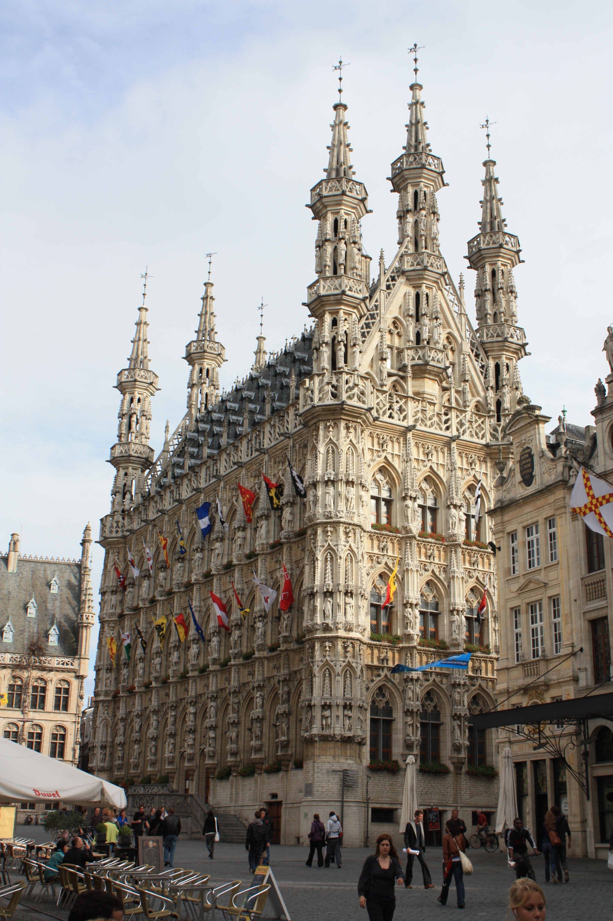 The town hall (stadhuis) of Leuven, Belgium